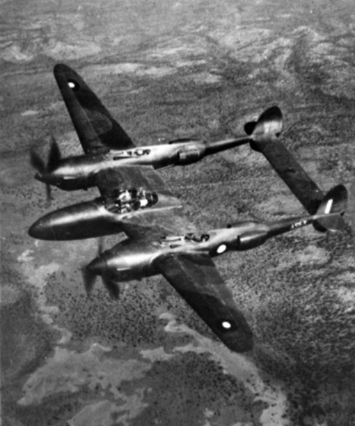 A Lockheed F-4-1-LO Lightning reconnaissance plane from No. 1 Photo Reconnaissance Unit, RAAF, in flight over Coomalie Creek, Northern Territories (Australia), in 1943. This aircraft had been delivered to the USAAF as s/n 41-2122 on 1 January 1942. It was transferred to the RAAF (serial A55-3) in 27 February 1943 and flew reconnaissance missions with 1 PRU. It was heavily damaged in a belly landing at Batchelor, N.T. on 10 December 1943. The wreckage was later acquired by the Darwin Aviation Museum, Batchelor, N.T.